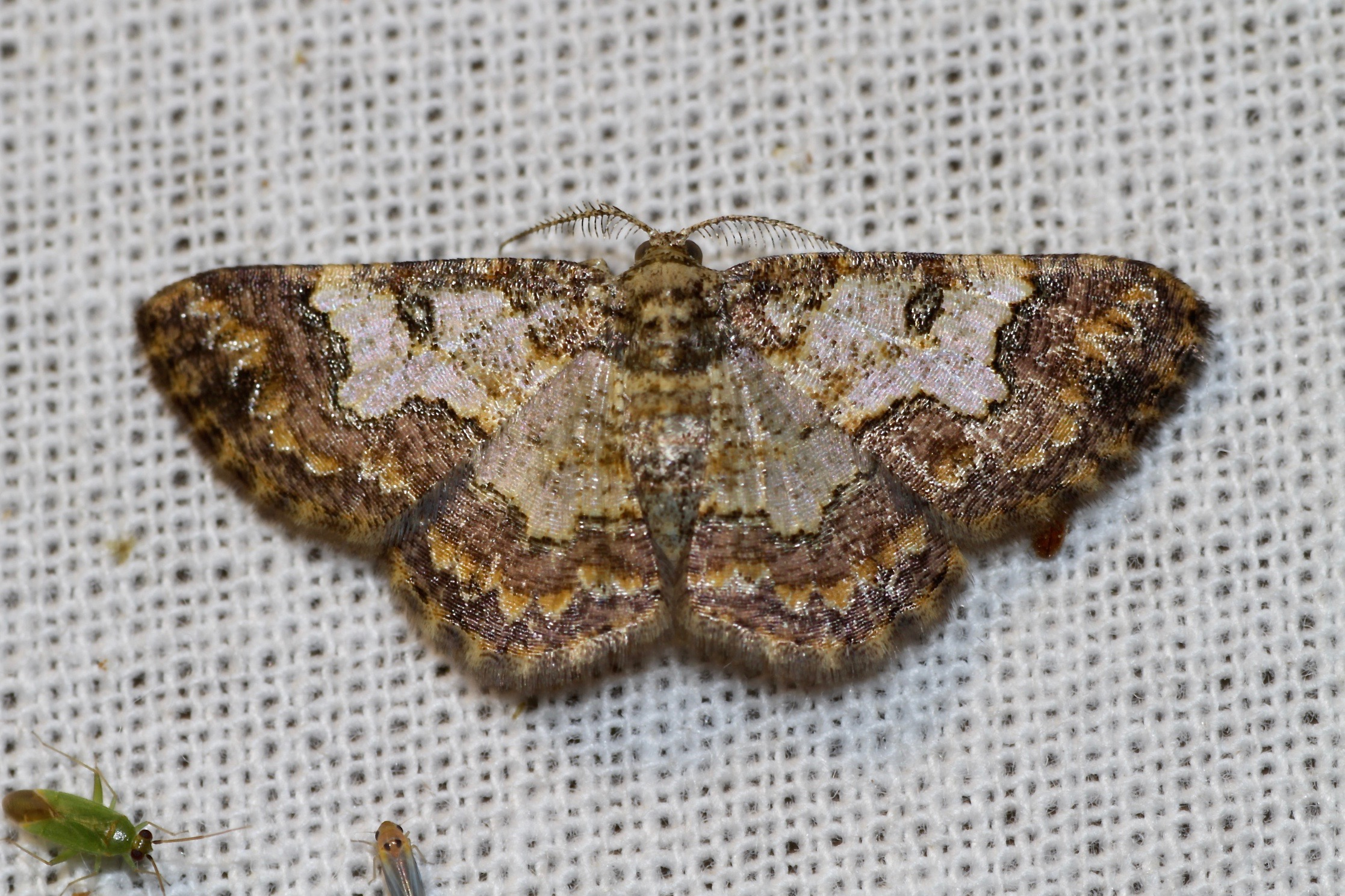 South Africa, Mhlopeni Nature Reserve.